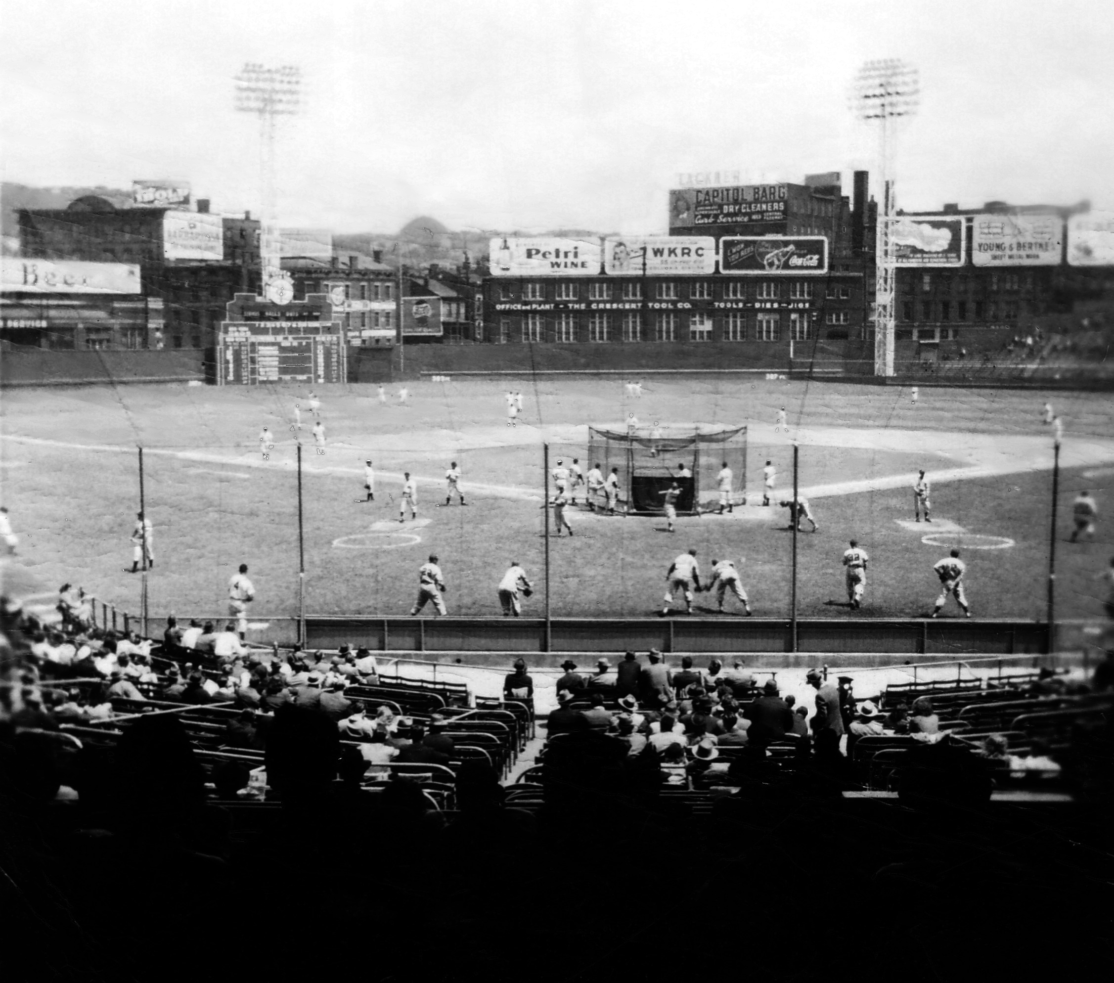 View of Crosley Field from behind home plate, from "over 60 years ago." Photo taken by the father of Rob Lambert, via Flickr.